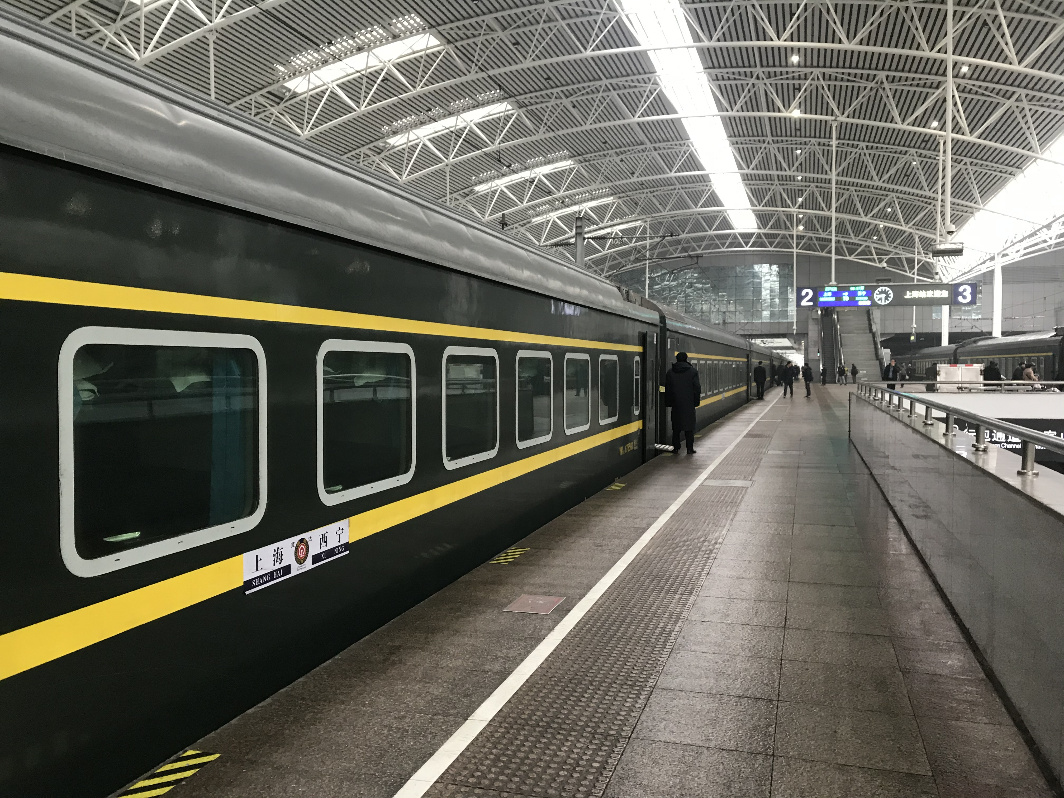 Do not let the faces of the crews being caught in the frames...